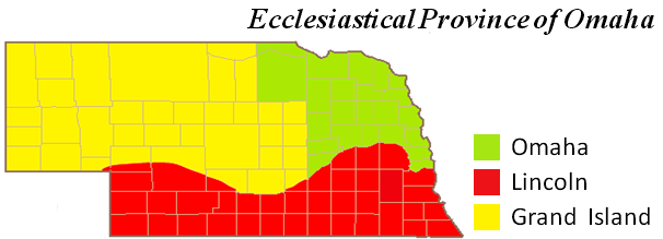 Ecclesiastical Province of Omaha in the Catholic Church encompasses the entire state of Nebraska, USA.